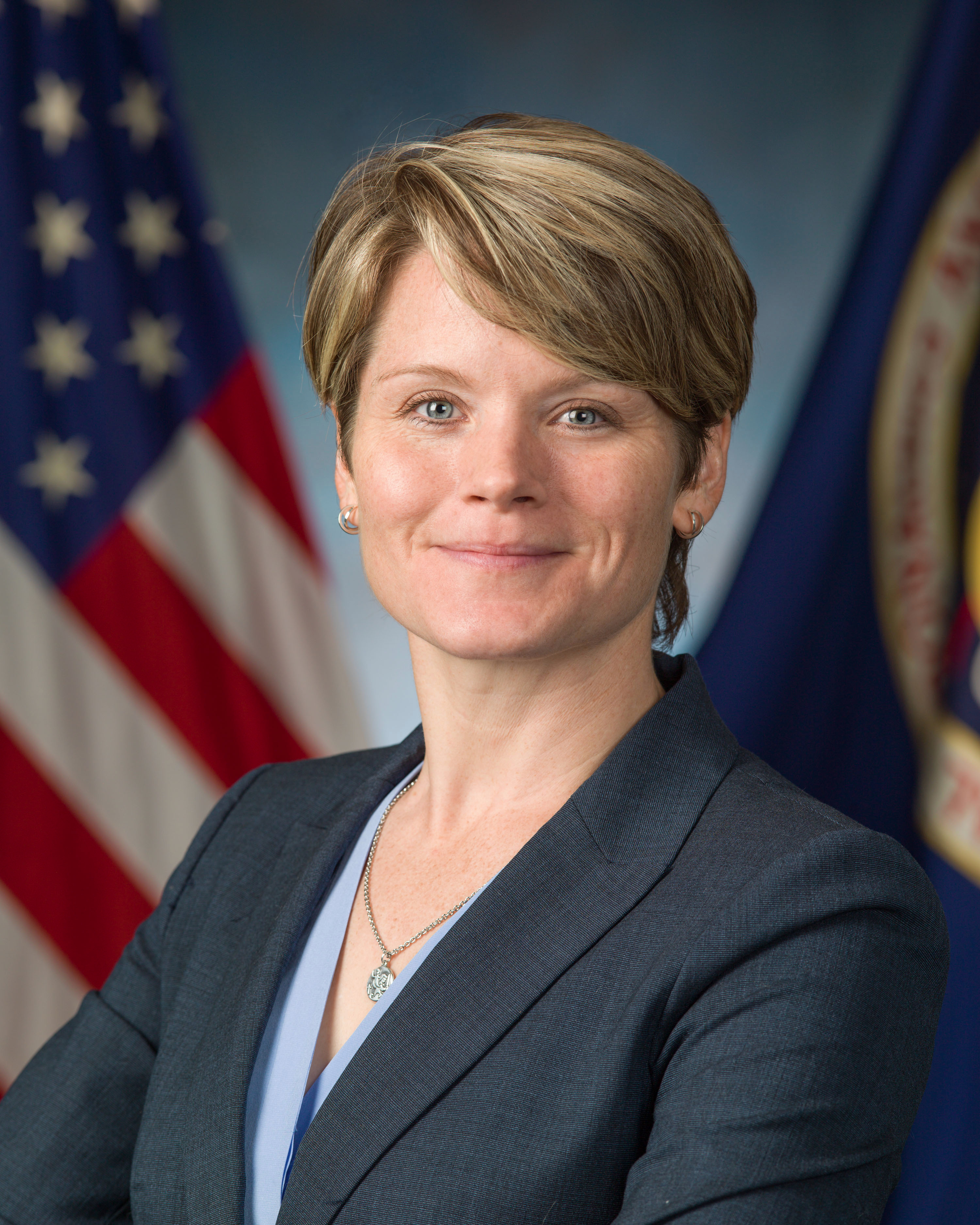 NASA Candidate Anne C. McClain